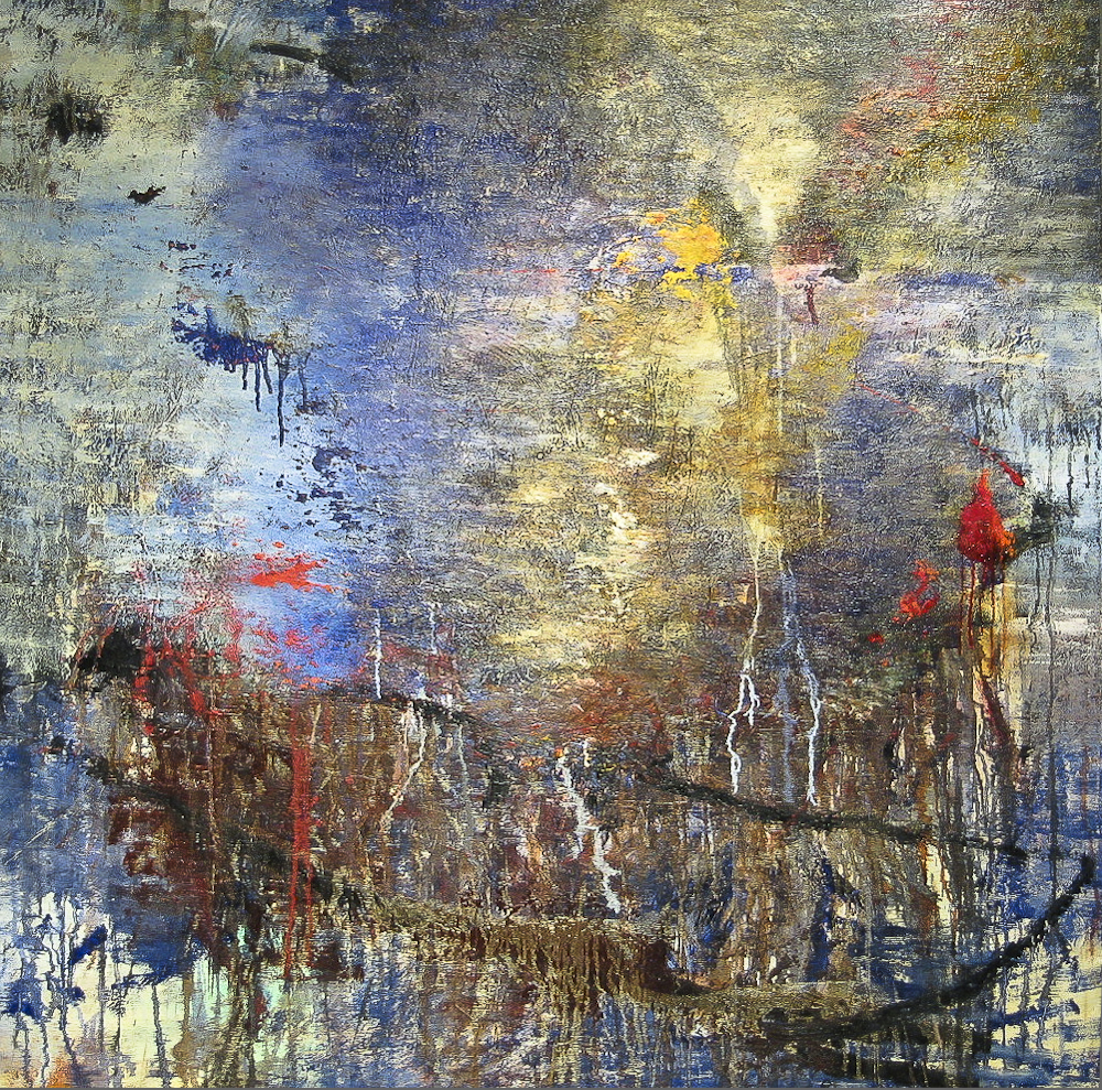 Painting by Adam Shaw